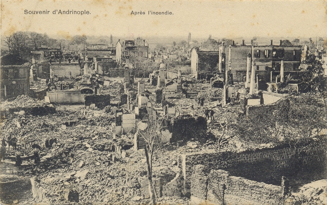 Postcard: A view after the big Adrianople (Edirne) fire